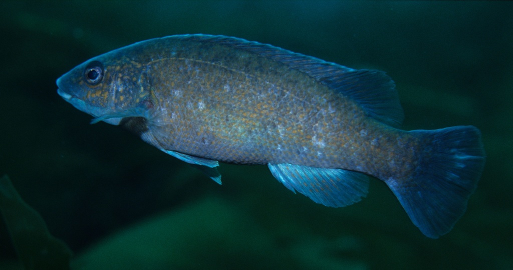 Cunner (or bergall or conner), Tautogolabrus adspersus (Walbaum) in Newfoundland, Canada.